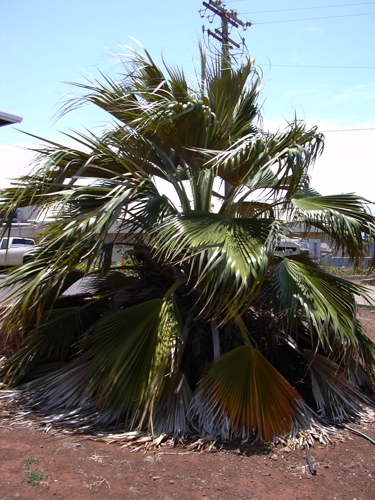 Pritchardia arecina (habit). Location: Maui, State nursery Kahului